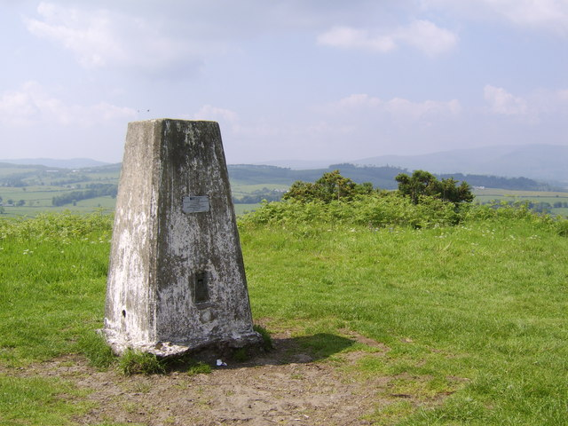 Trig point on the summit of Duncryne